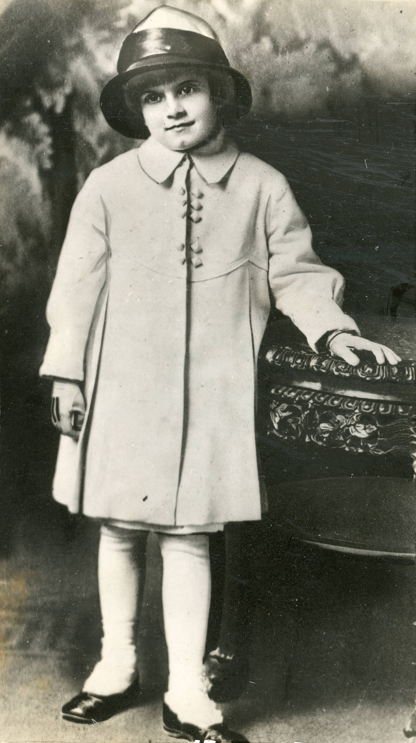 Jean Harlow, film actress (taken at age 4) Subjects: actresses